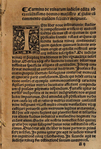 Gilles de Corbeil (1140-1224), Carmina de vrinarum iudicijs, 1515